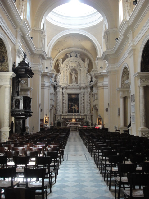 Church of the circumcision of Jesus in Valletta Malta.